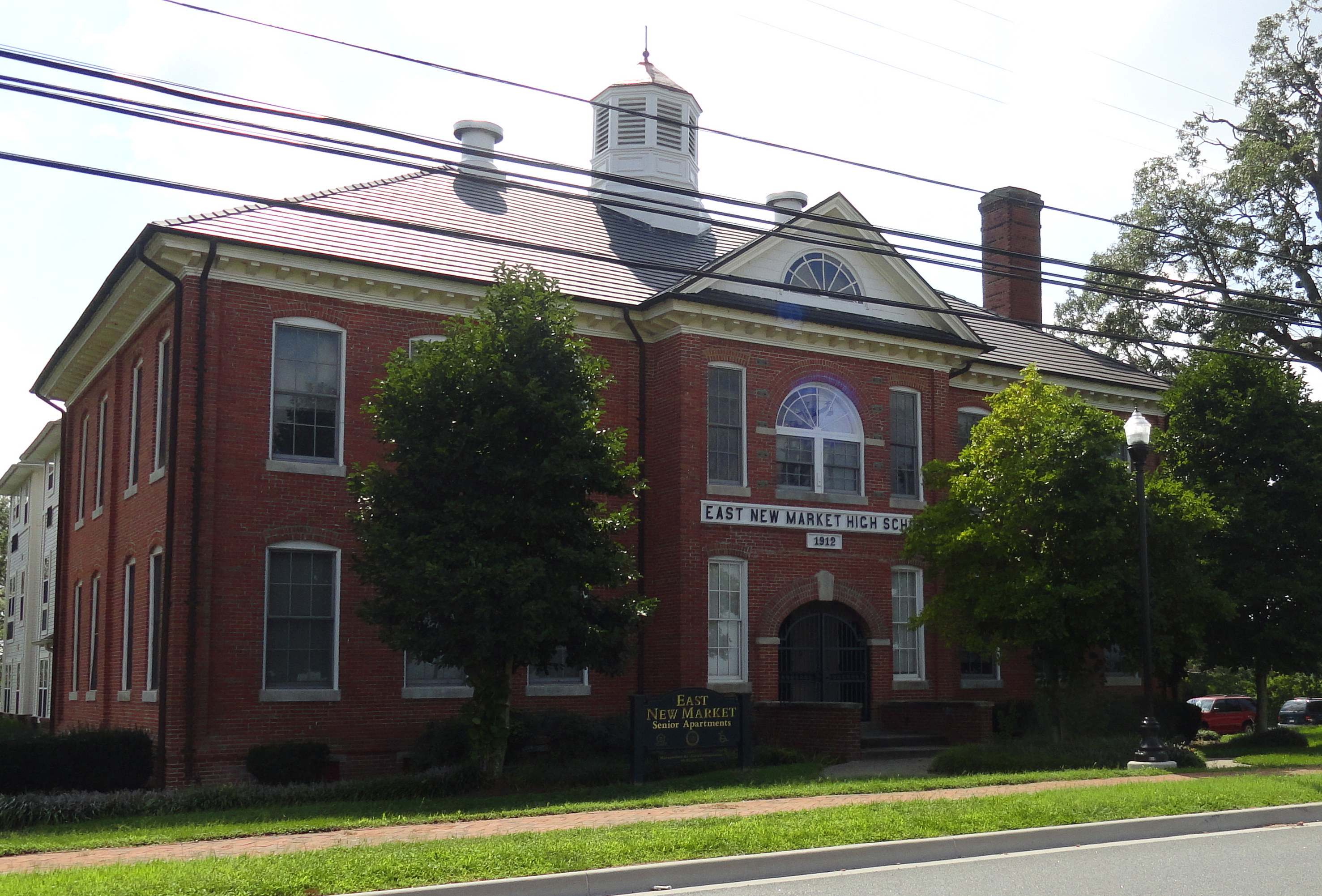 East New Market Historic District Located on Route 14, the original school was called East New Market Academy and began operating in 1818. In 1912 a larger brick school was built and named East New Market High School. It continued operating as a school until the 1970's. It is currently being used for senior housing.